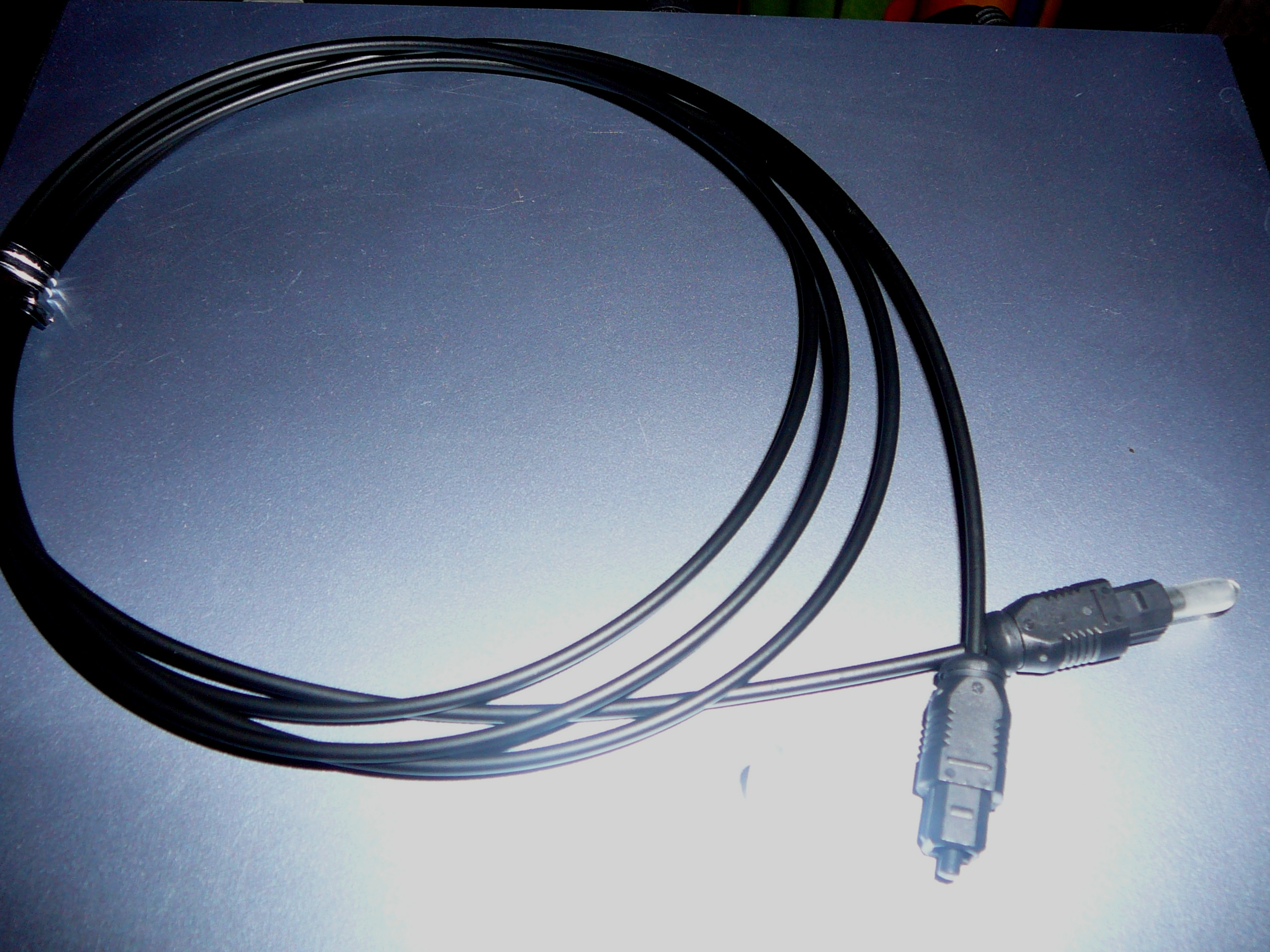 A TOSLINK wire. There is still a plastic protection on one of the connectors.